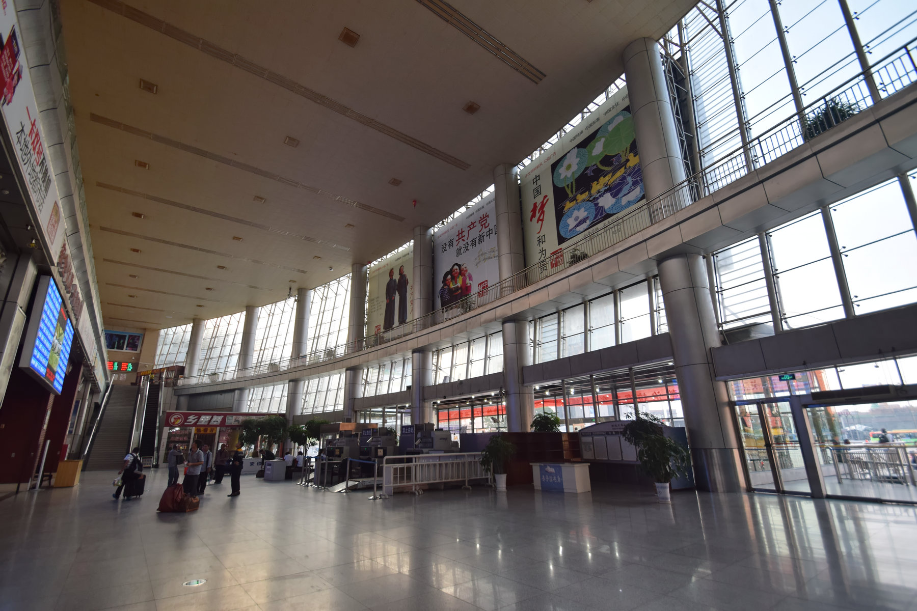 Entrance of Huaihua Railway Station, a poster with "Without the Communist Party, There Would Be No New China" slogan was posted on the curtain wall.